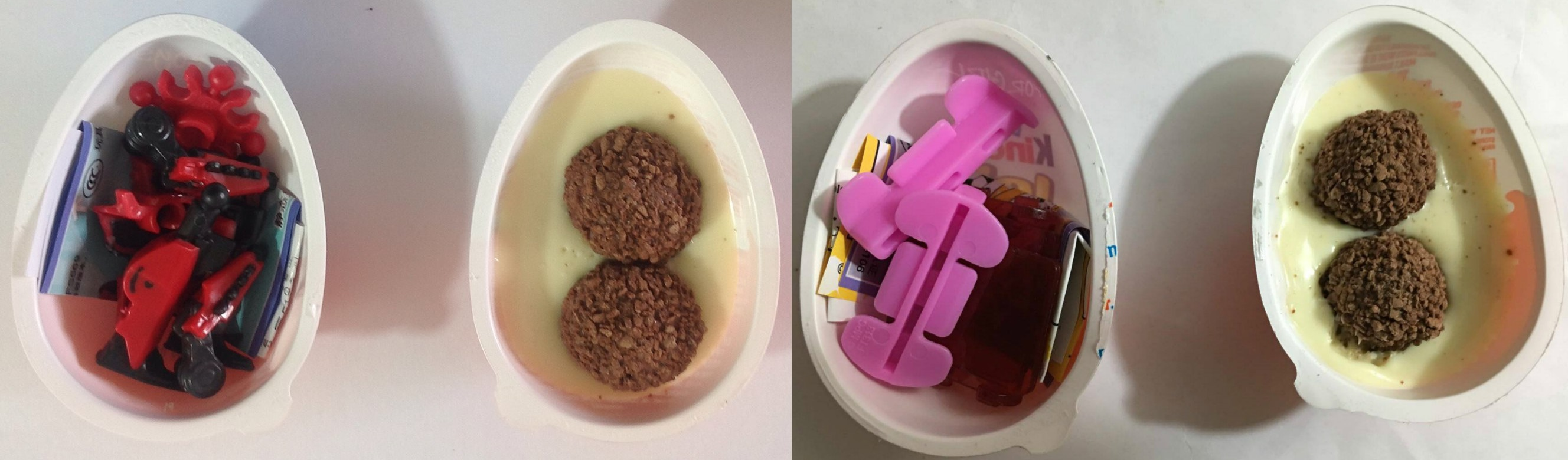 Tearing Kinder Joy